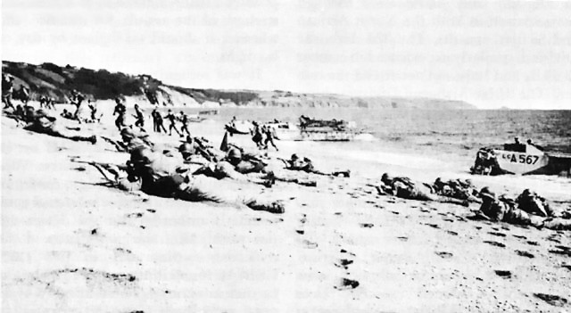 Invasion Training in England - Hitting the beach